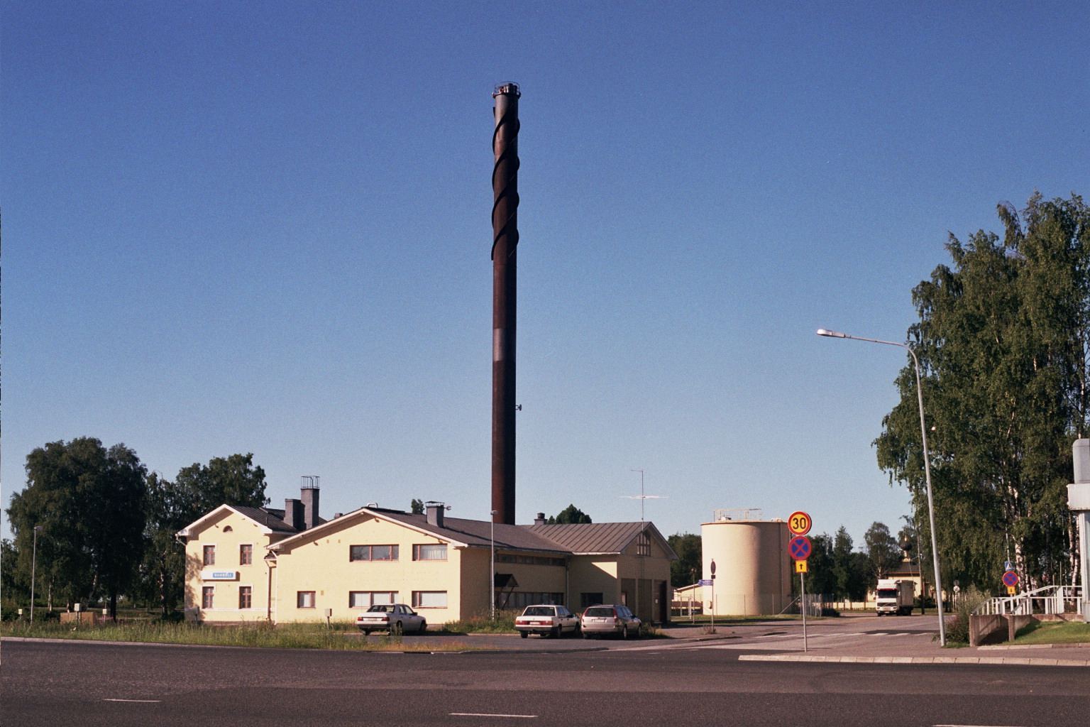 A district heating plant along the Lukiokatu street in the Suensaari area of the city of Tornio in Finland.